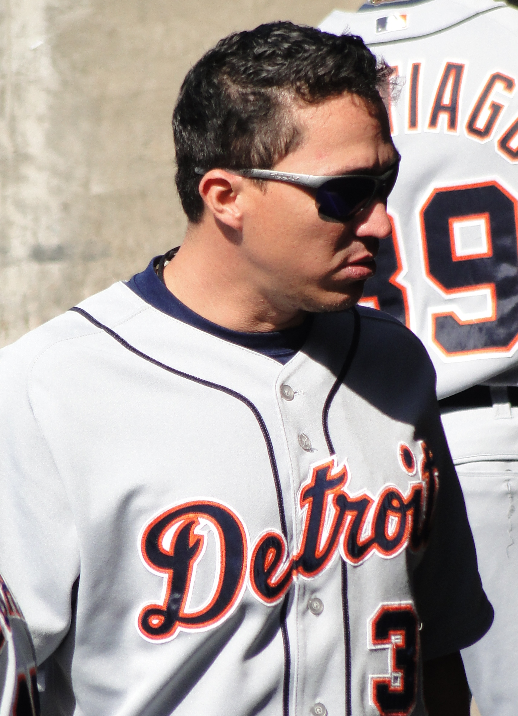 Description Magglio Ordóñez at Dodger Stadium Date22 May 2010SourceI (Cbl62 (talk)) created this work entirely by myself.AuthorCbl62 (talk) 07:46, 23 May 2010 . . Cbl62 . . 1,714×2,369 (1.4 MB) Magglio Ordóñez at Dodger Stadium